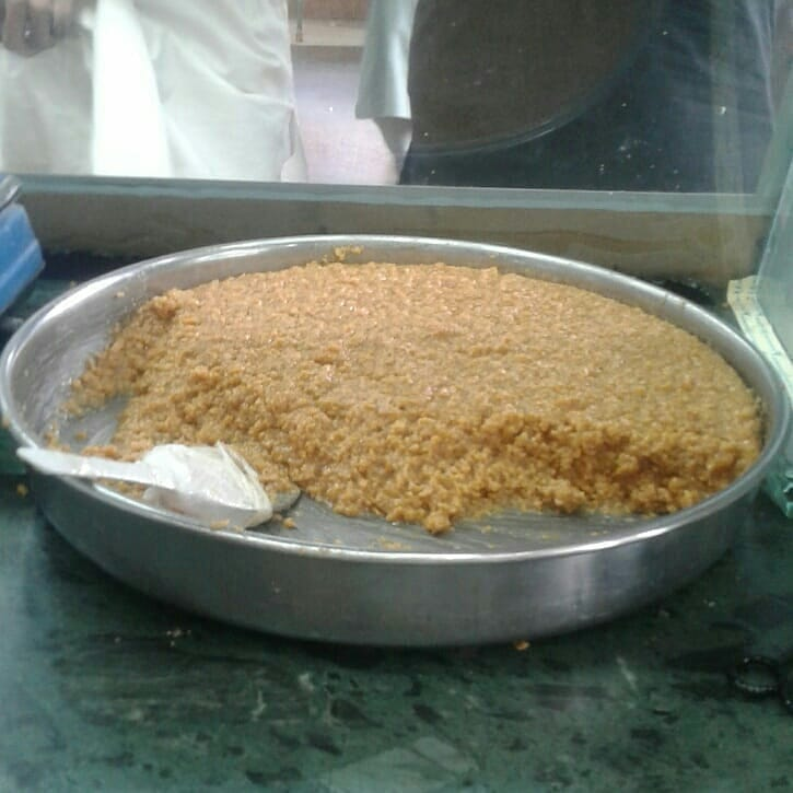 DHODA.PK is Pakistan’s first online sale point of KHUSHAB DHODA. DHODA is known as gift of KHUSHAB. You can buy online DHODA of Khushab. We delivered your online order at your door step by fastest courier all over the Pakistan. DHODA.PK is wholesale dealer of NO # 1 Quality of Khushab Dhoda.